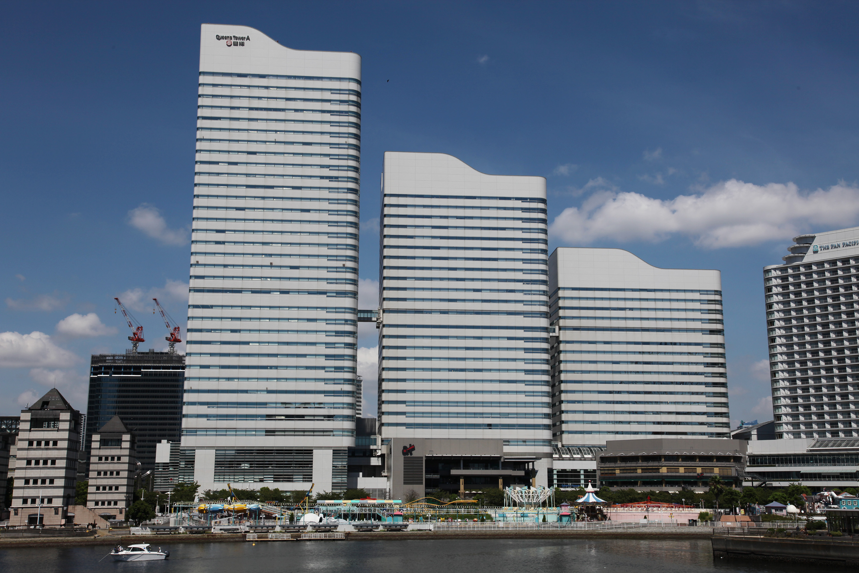 Queen's Square YOKOHAMA